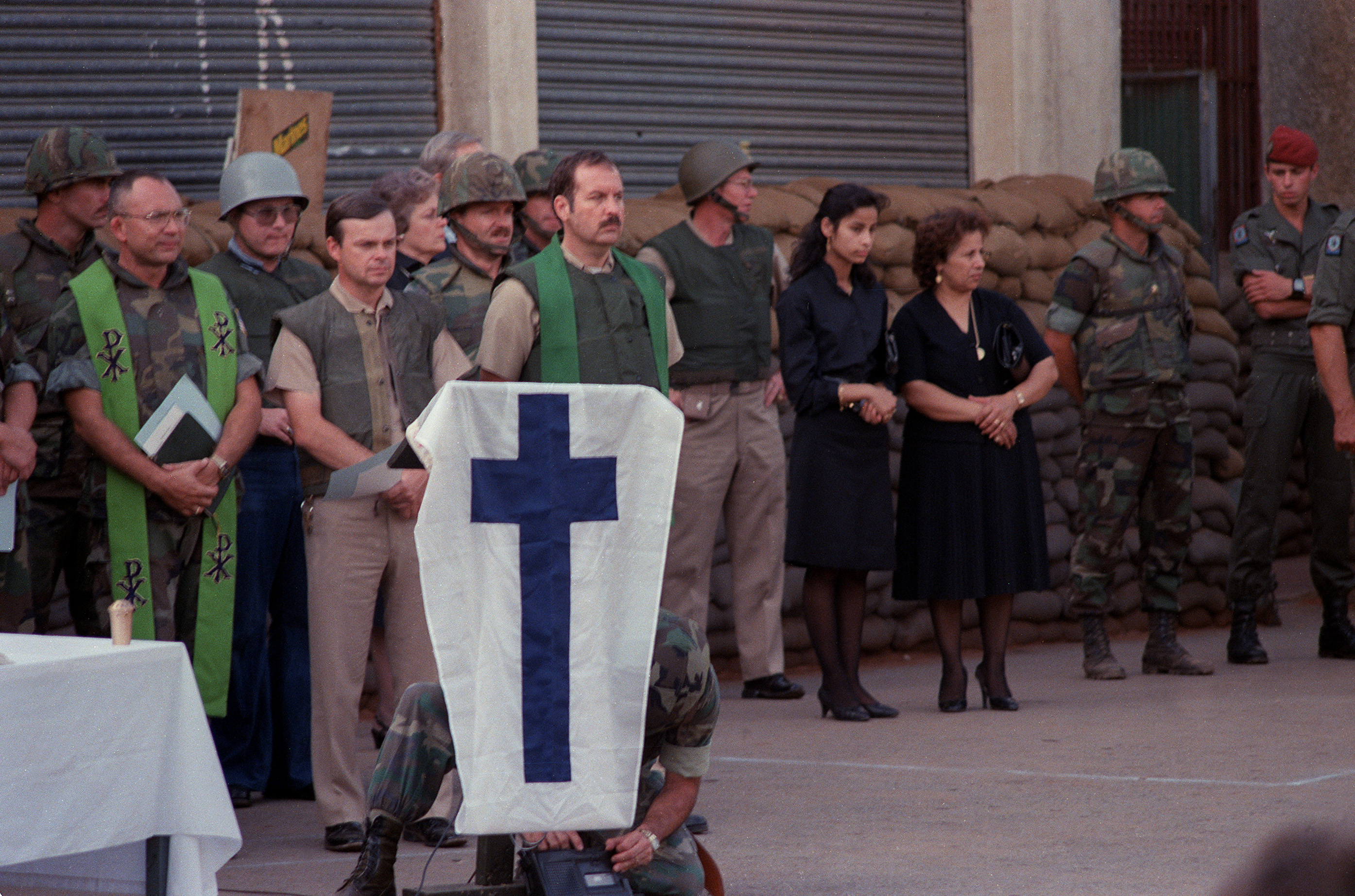 Chaplains, U.S. Marines and family members observe a moment of silence at memorial services for the 241 Marines killed during the terrorist bombing of the barracks at Beirut International Airport. The Marines have been deployed in Lebanon as part of the multi-national peacekeeping force following confrontation between Israeli forces and the Palestine Liberation Organization.